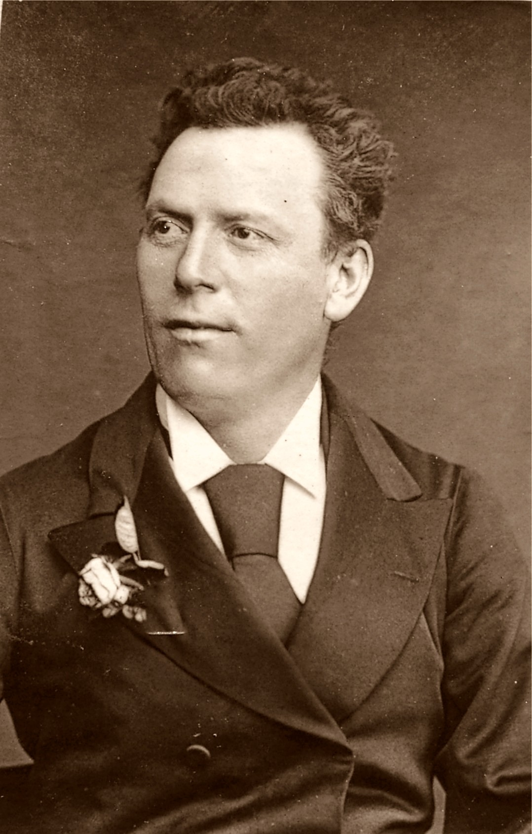 Lionel Brough 1836-1909, English Actor and Comedian.